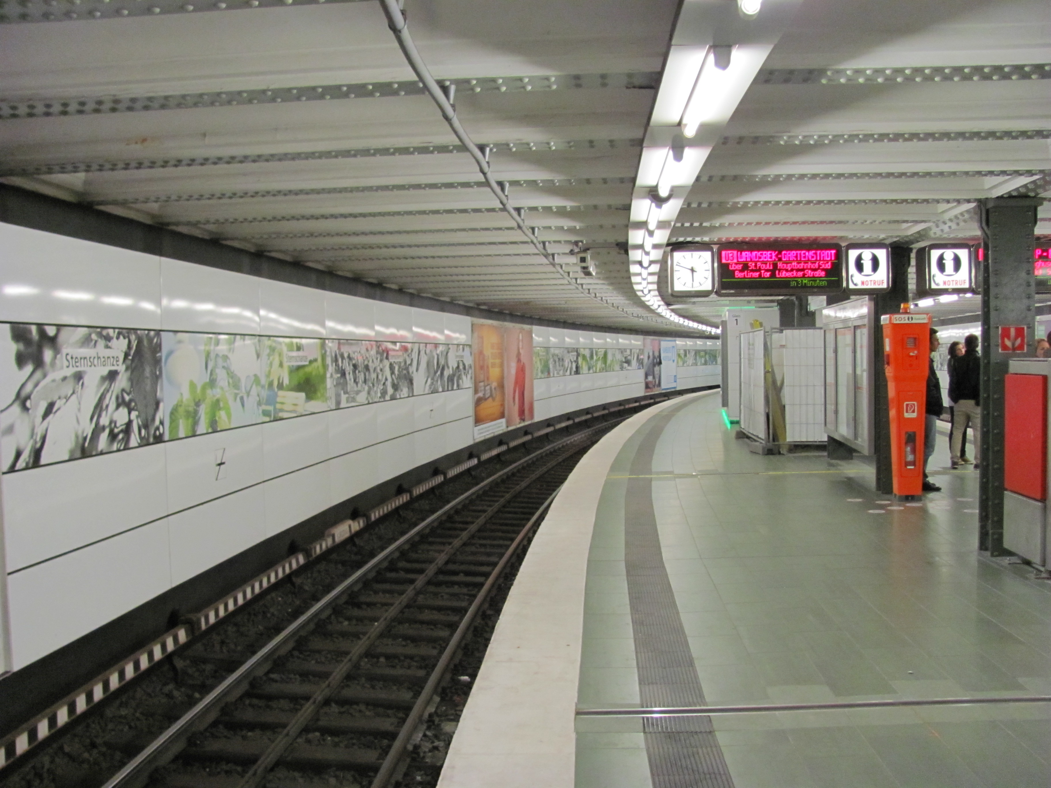 U-Bahn station Sternschanze in Hamburg, Germany